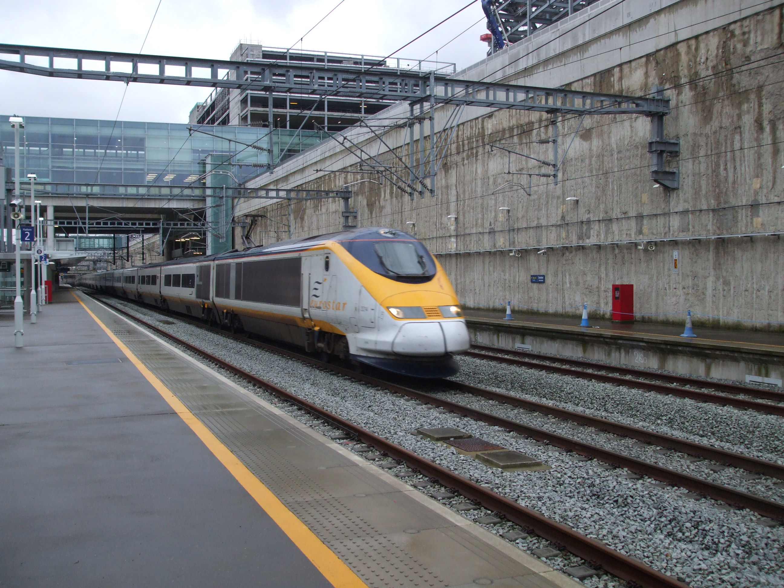 A London-bound Eurostar service powers through Stratford International station. No Eurostar trains stop at Stratford International. Eurostar has been reviewing this since the end of the 2012 Olympics but their trains could not stop at Stratford International during the games due to the frequency of the Olympic Javelin high-speed service (Stratford International is within walking distance of the London Olympic Park).